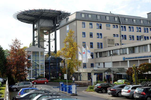 Hospital of the Brothers of Mercy in Trier